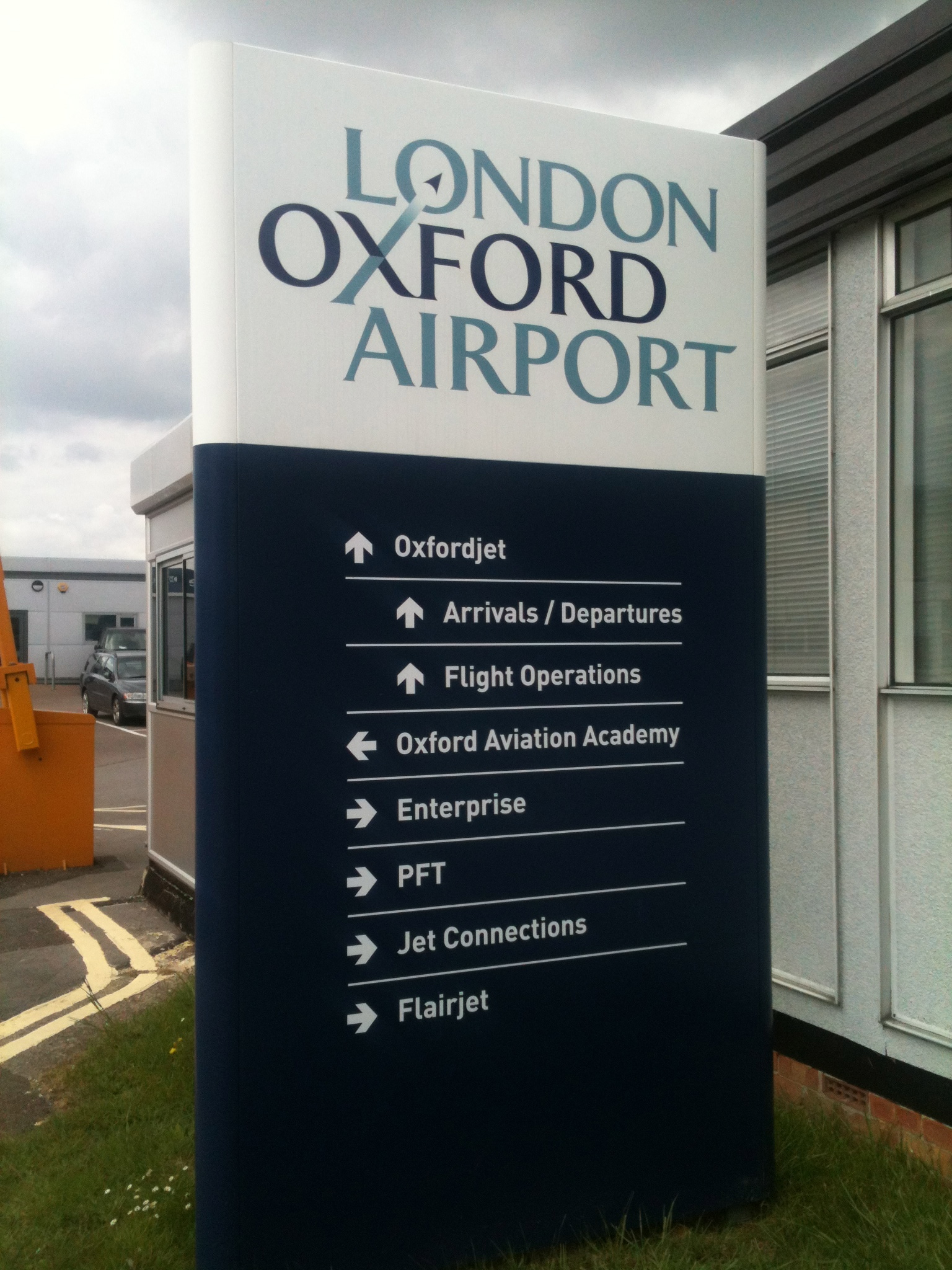 Directional sign at London Oxford Airport, Oxfordshire, UK.